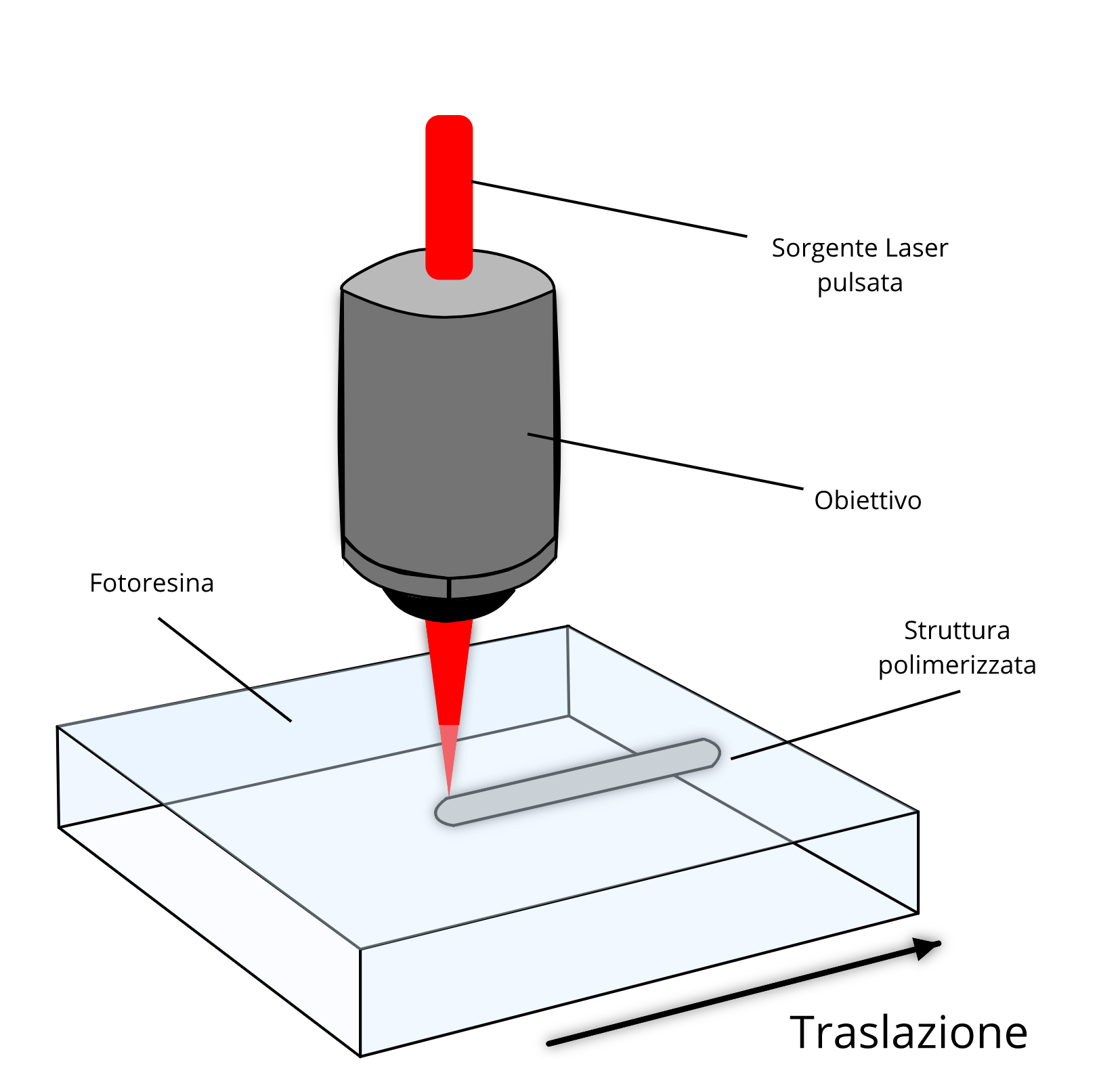 Multiphoton polymerization, schematic example